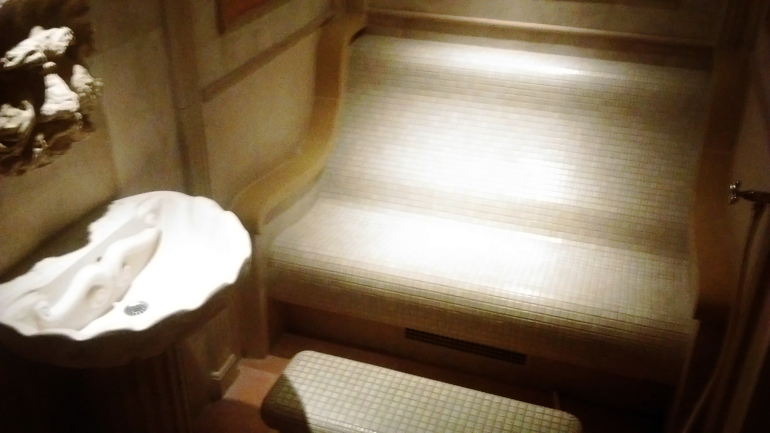 A contemporary laconicum in a balneological spa center, Bulgaria